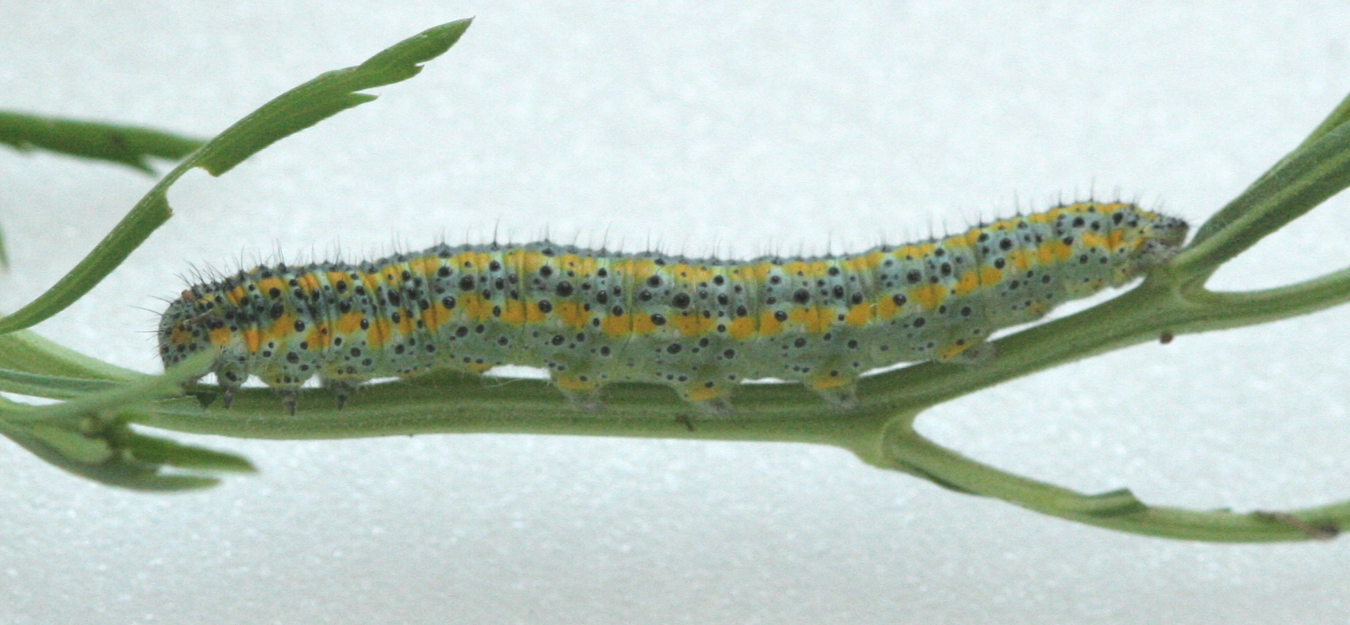 Checkered White larva (Pontia protodice)